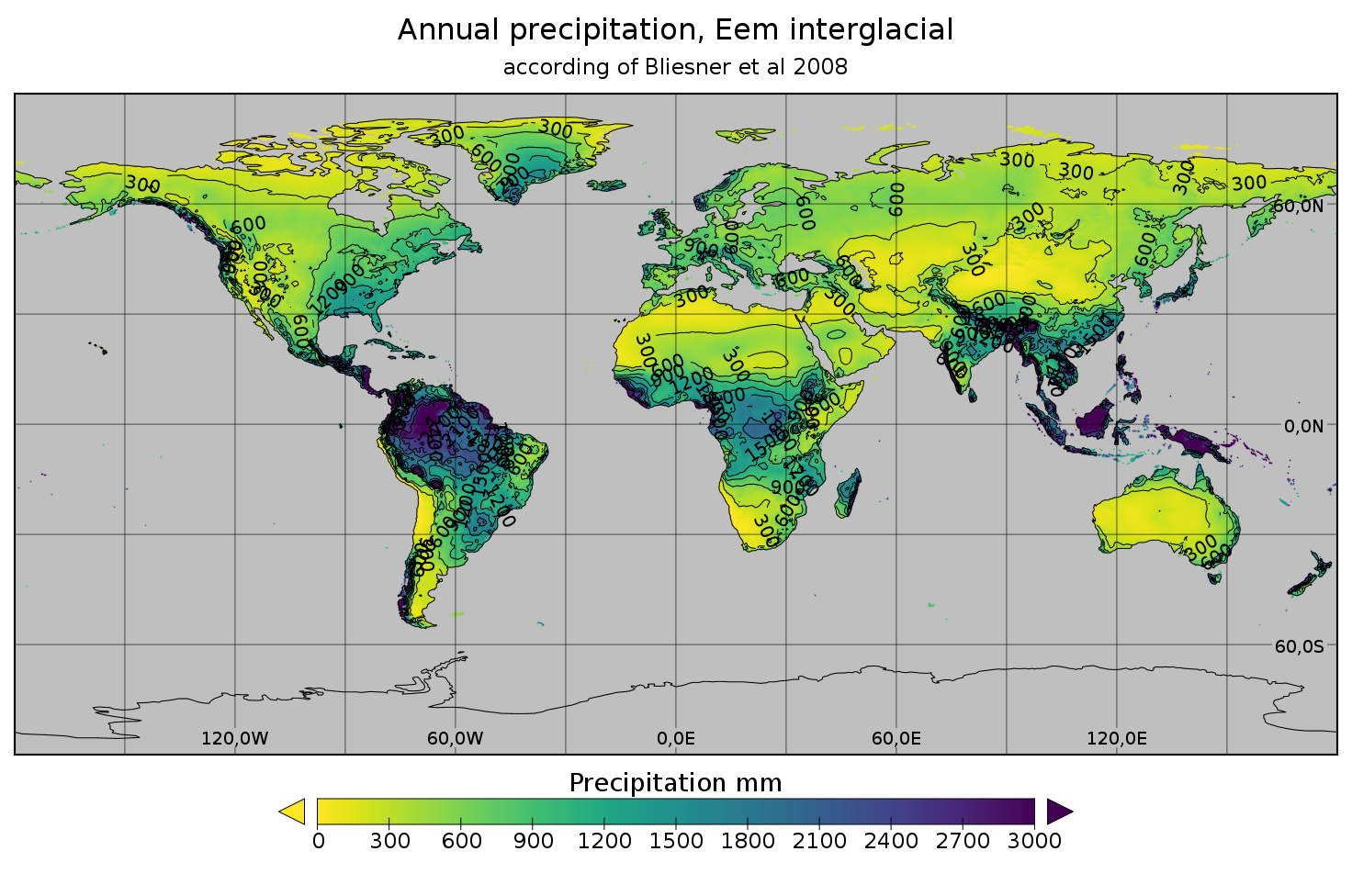 Annual precipitation at Eemian interglacial, ca 120-140 kya BP.